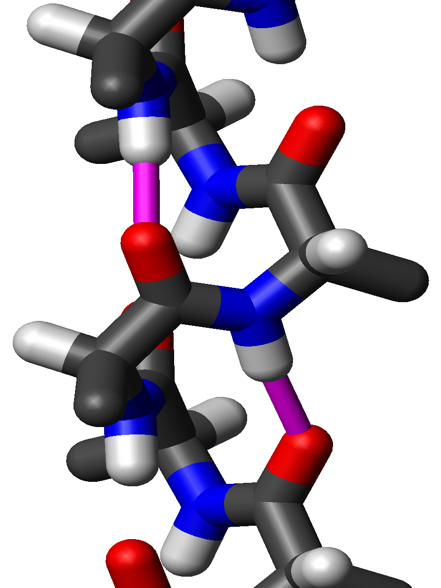 Close-up sideview of a "stick" model of an 310 helix of poly-alanine using the dihedral angles φ=-49° and ψ=-26° and the Engh&Huber bond geometry. Two hydrogen bonds to the same peptide group are highlighted in magenta; the O-H distance is 1.83 Å (183 pm). The PDB file was made by me on 18 October 2006 using my own software and visualized by me using MOLMOL. I release this image under the GFDL.